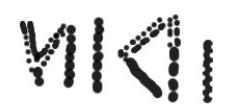 Corrected version of File:Meldorf inscription drawing.jpg.